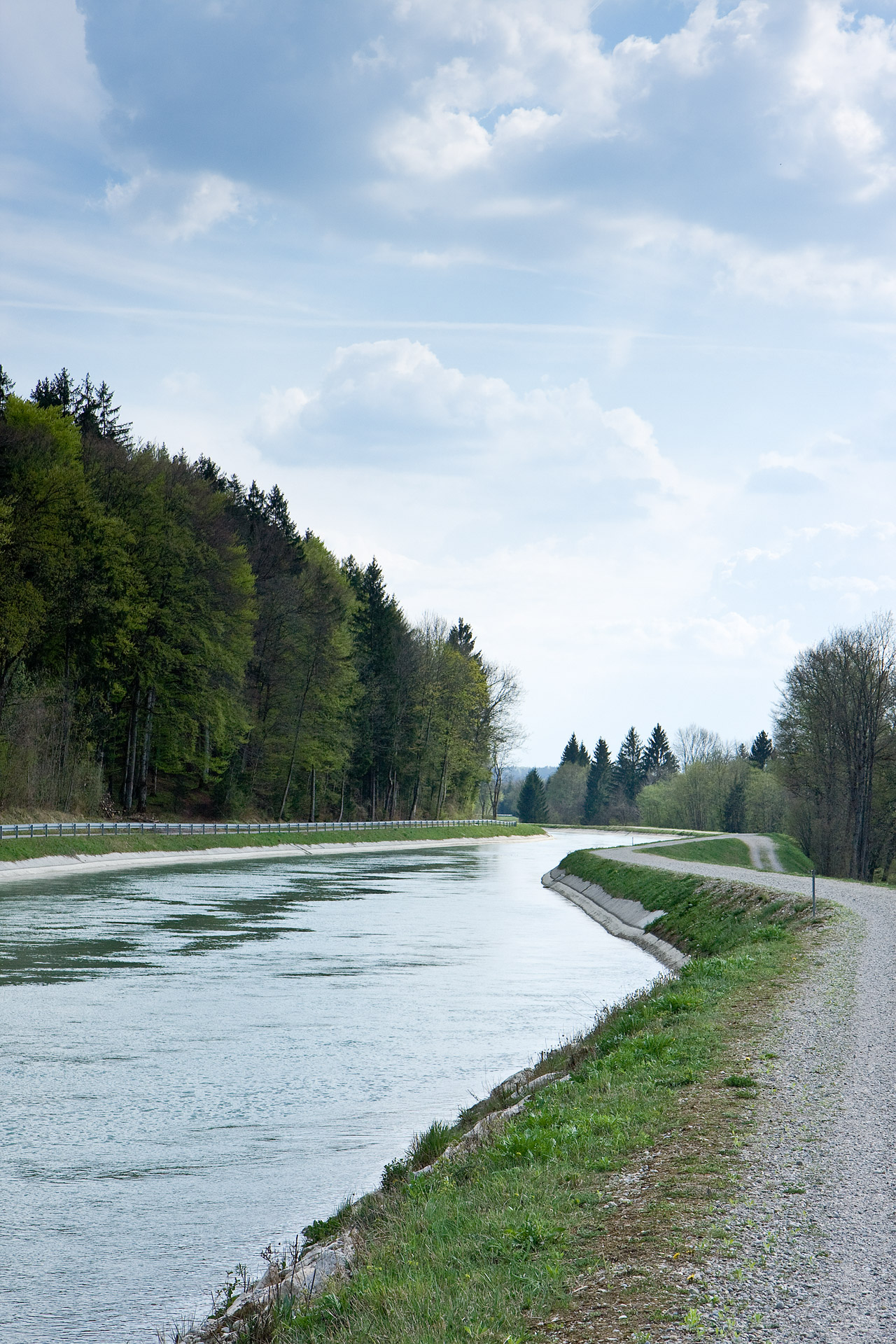 Mühltalkanal